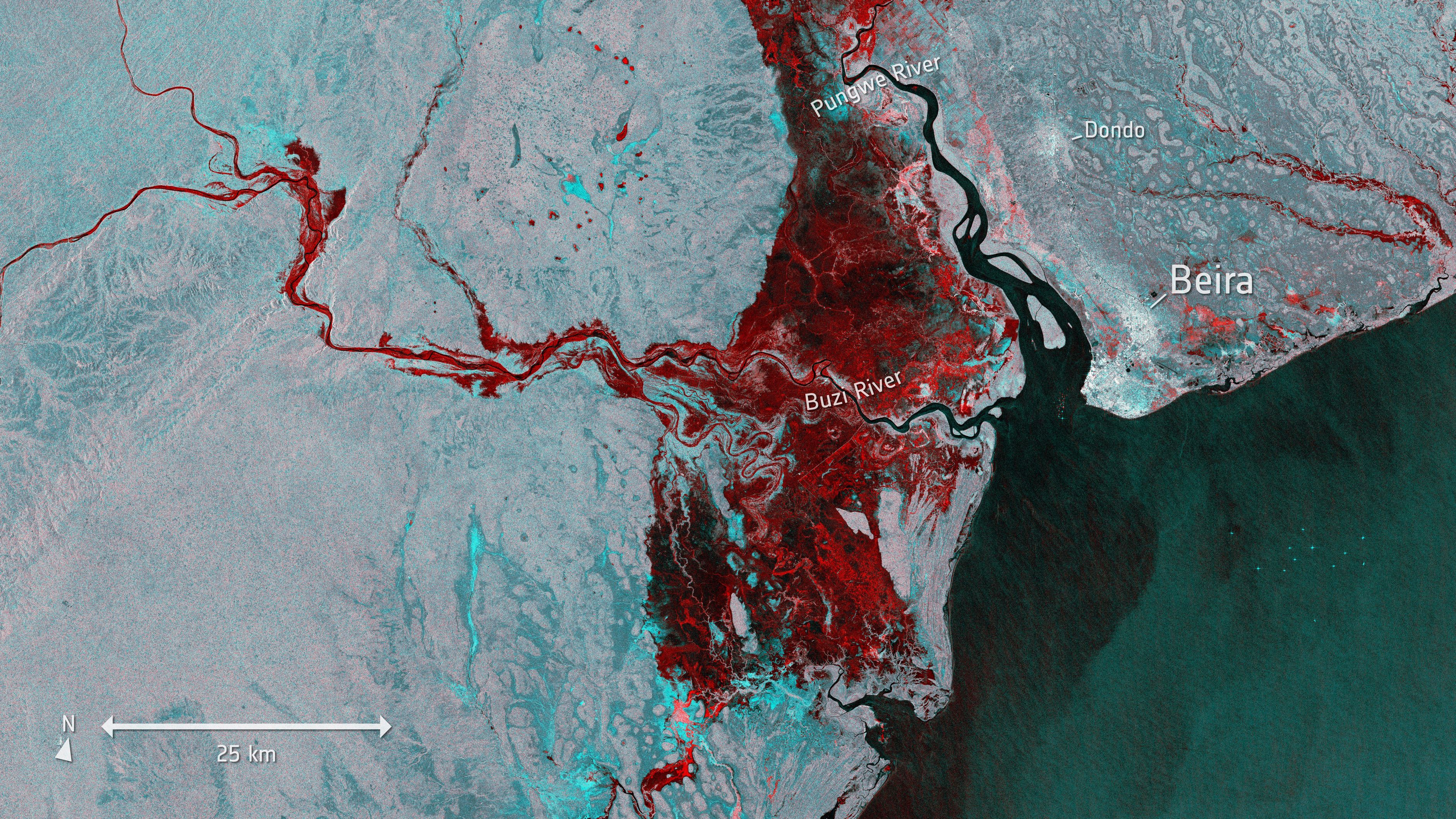 Cyclone Idai generated floods near port town of Beira, Mozambique imaged on 19 March 2019 by European Space Agency satellite Copernicus Sentinel-1. This image shows the extent of flooding, depicted in red, around the port town of Beira. For example large parts of Buzi district, located west and southwest of Beira, is flooded.